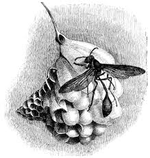 Belonogaster sketch